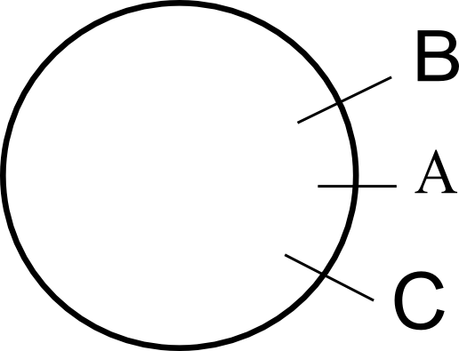 circular city